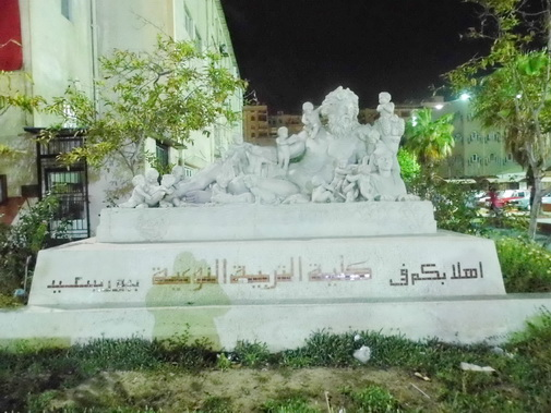 النصب التذكارى بداخل كلية التربية النوعية ببورسعيد